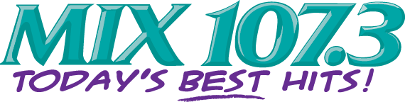 Former logo of the radio station WRQX used between 31 August 1990 and 28 August 2013.